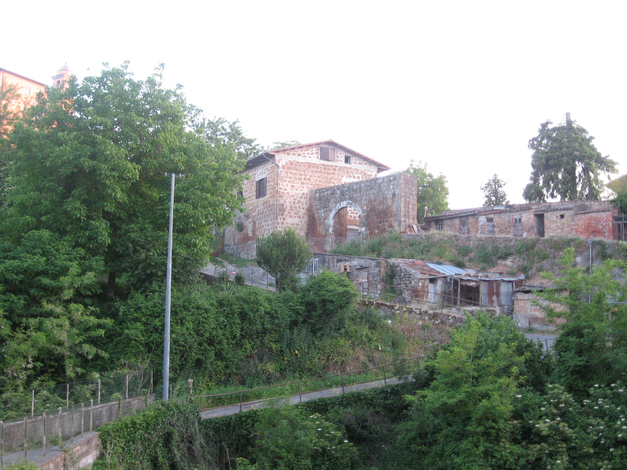 Vecchia Porta d'ingresso al borgo